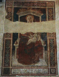 Madonna col bambino in trono Pier Francesco Fiorentino Date of birth/death1444 or 1445post 1497Location of birthFlorence